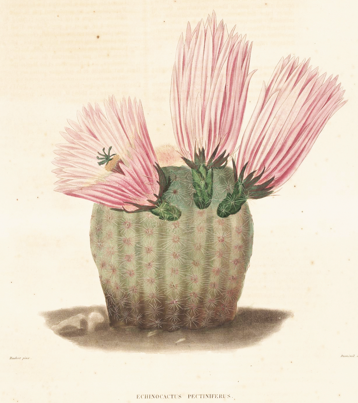 Plate from book